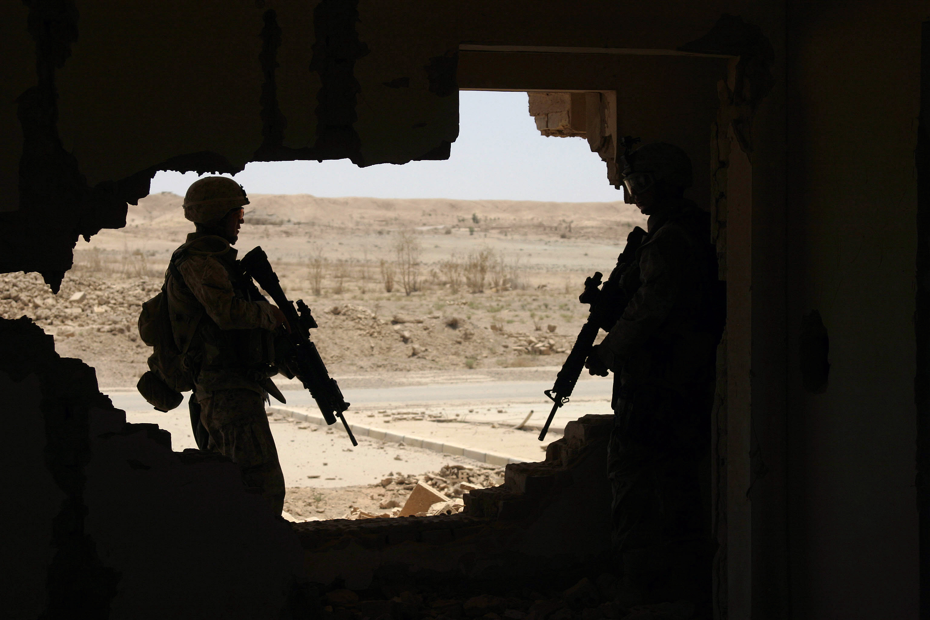 U.S. Marine Corps (USMC) Marines assigned to Bravo Company, 1st Battalion 6th Marines, clear an abandoned house during a weapons sweep across the Thar Thar Lake area in Iraq, during Operation Khanjar. The USMC 2nd Marine Division and members of the Multi-National Force West (MNF-W) are conducting counter-insurgency operations with Iraqi Security Forces (ISF) to isolate and neutralize Anti-Iraqi Forces, in support of Operation Iraqi Freedom.